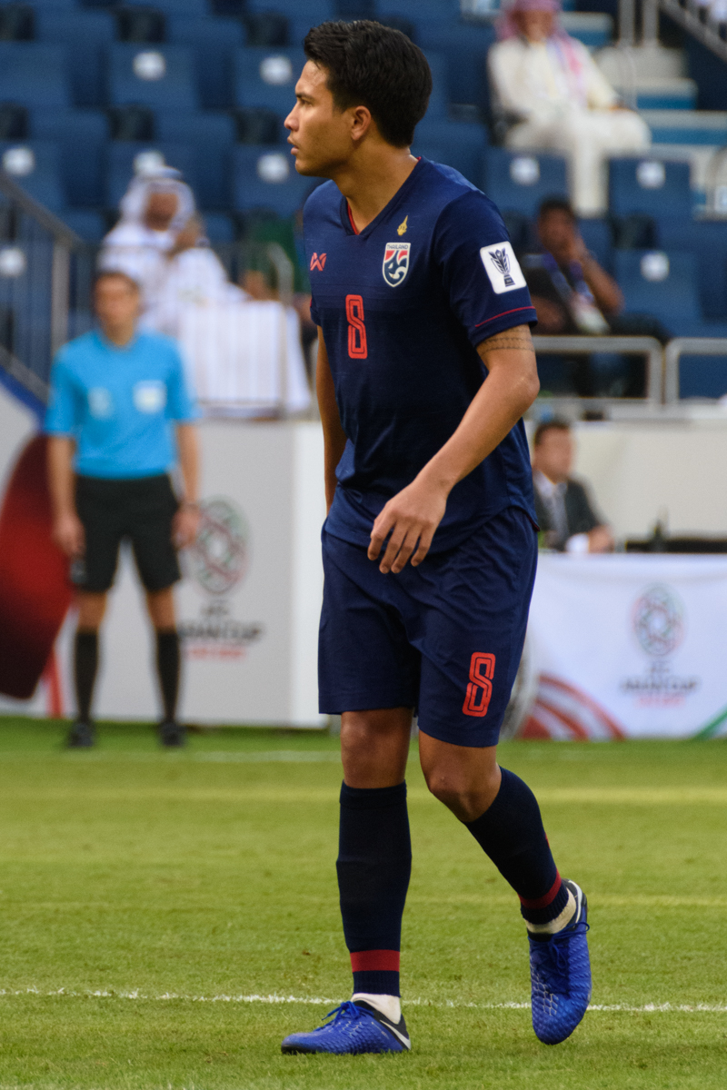 Thitipan Puangchan at the Asian Cup 2019